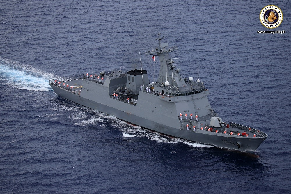 The Philippine Navys first missile-capable warship